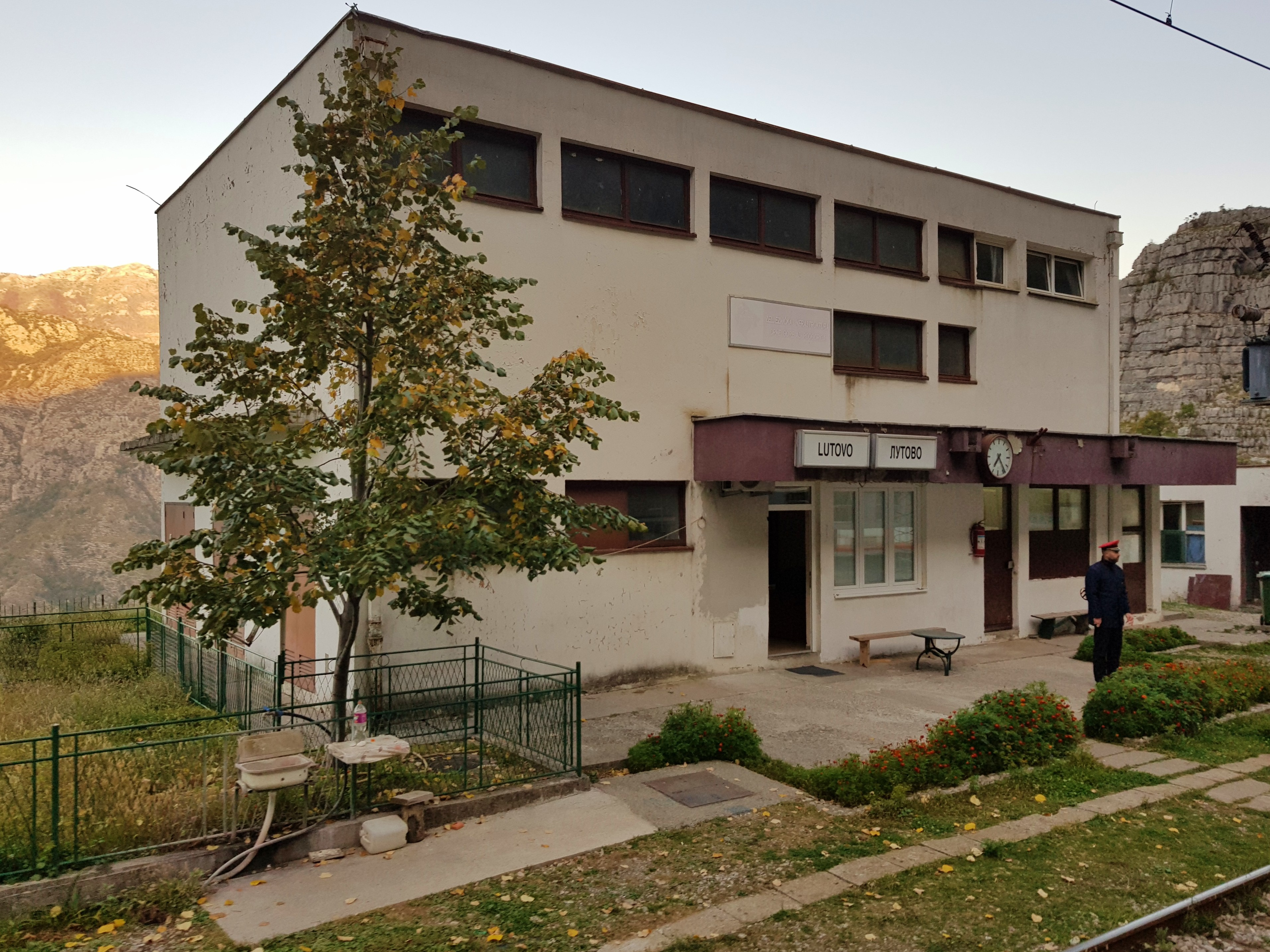 Lutovo railway station